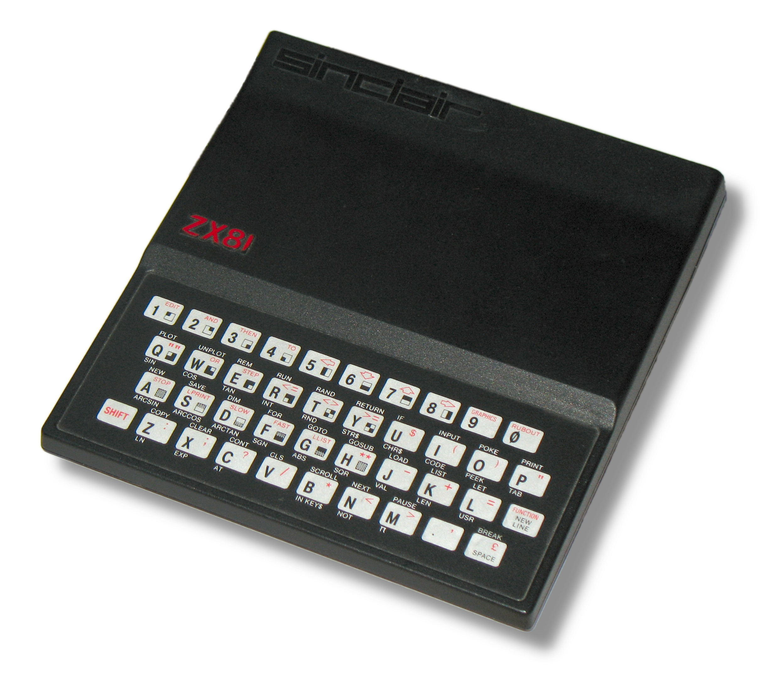 Sinclair ZX81, (home computer)